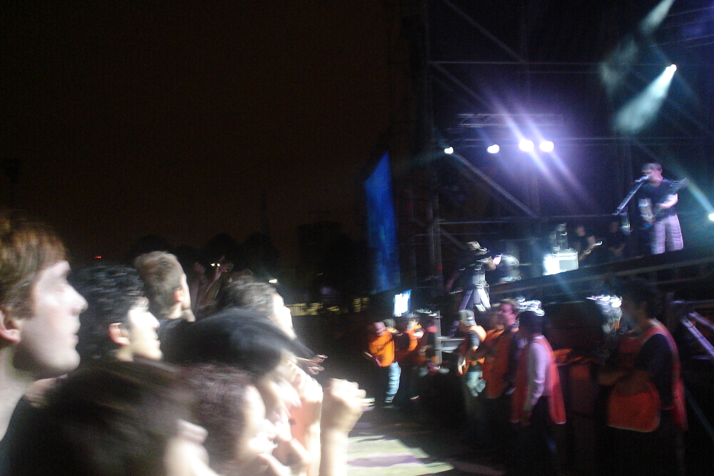 pic taken by me